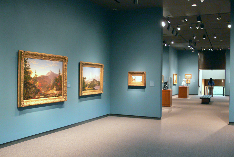 Amon Carter Museum, Fort Worth, Texas (Architect: Philip Johnson)